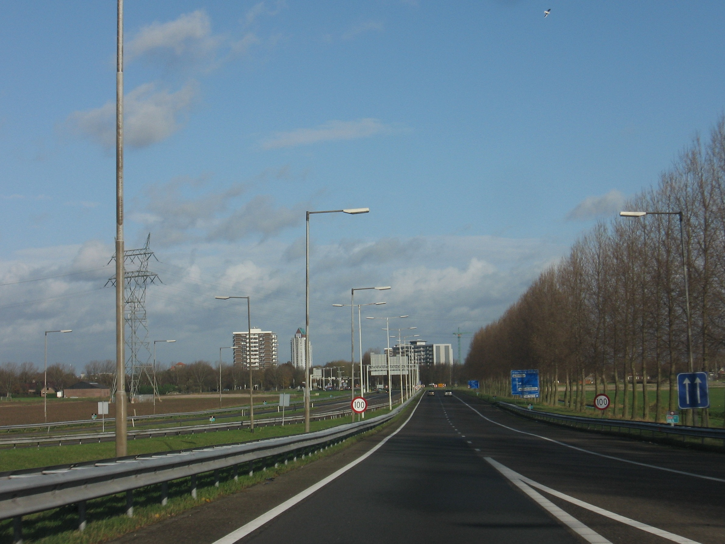 A38, shortest motorway of the Netherlands